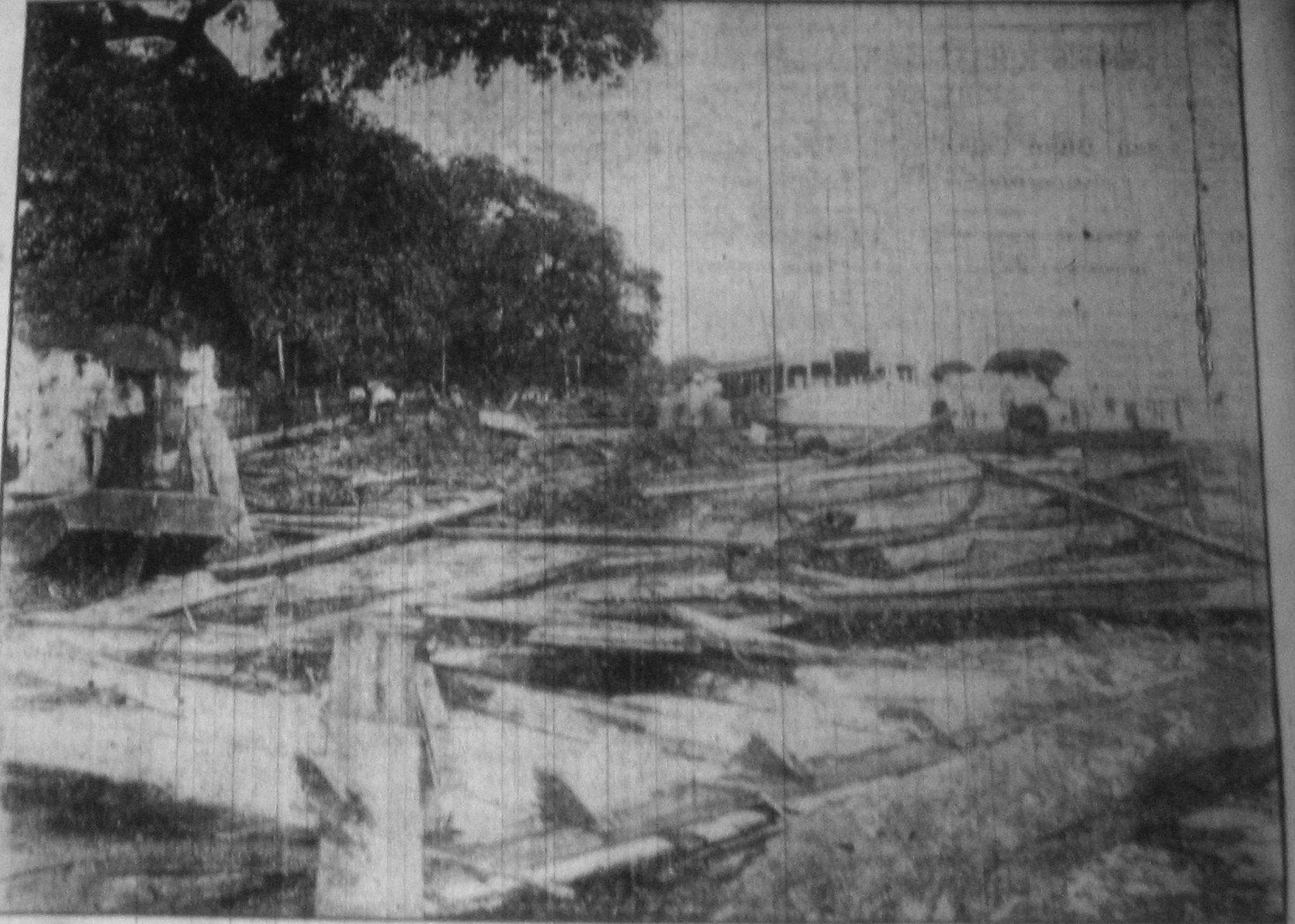 Aftermath of the September 1909 hurricane. Biloxi Beach near Howard Home.